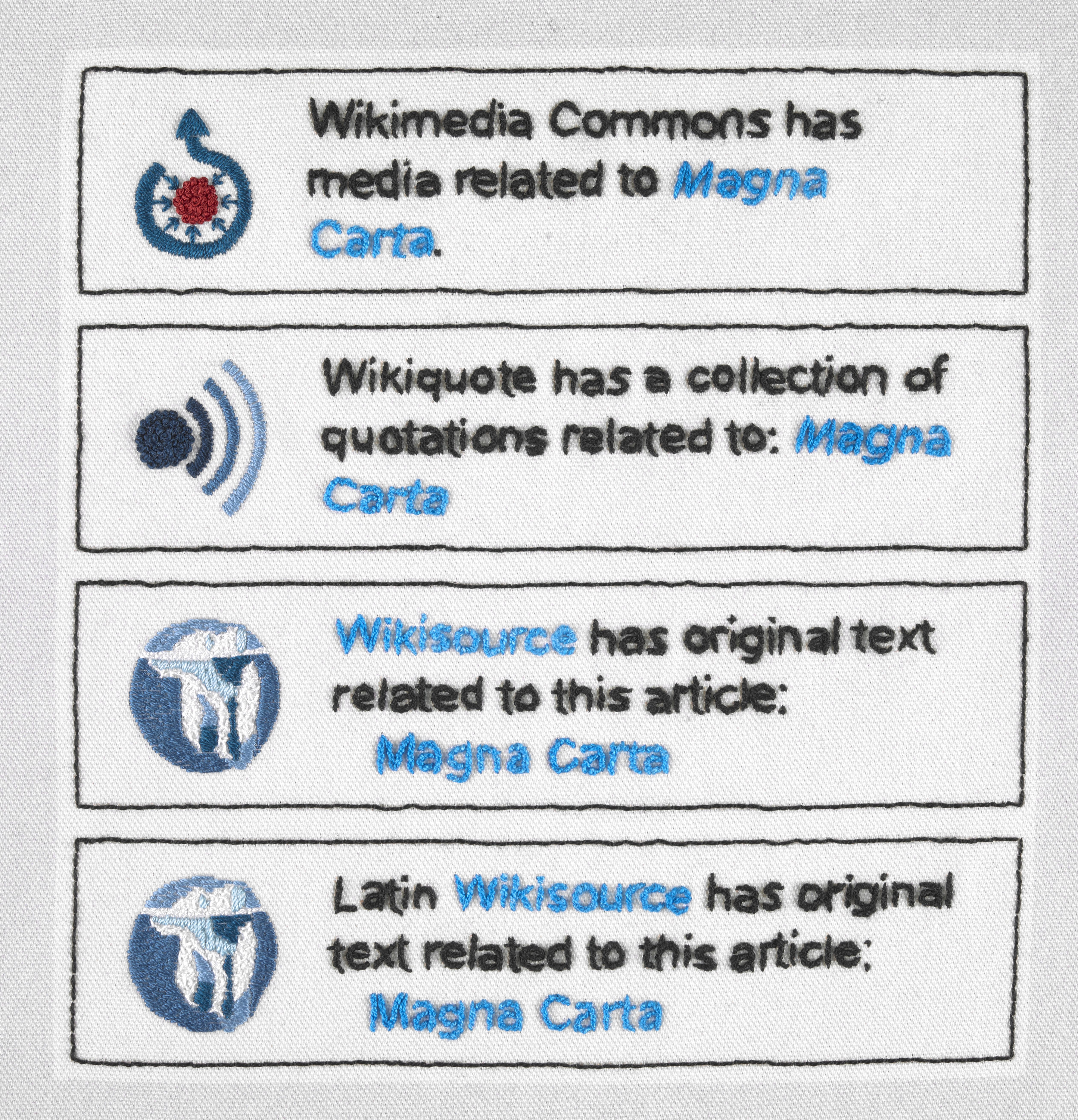 Detail from Magna Carta (An Embroidery) showing Wikimedia Commons, Wikiquote, and Wikisource link templates, as used in the Wikipedia article Magna Carta on 15 June 2014